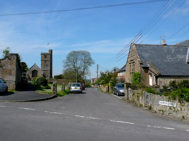 View west-northwest along Church Street, Tintinhull, Somerset, with St Margaret's parish church on the left